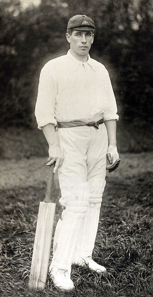 Sport, Cricket, Circa 1905, A picture of Clement Hill who played for South Australia and Australia.